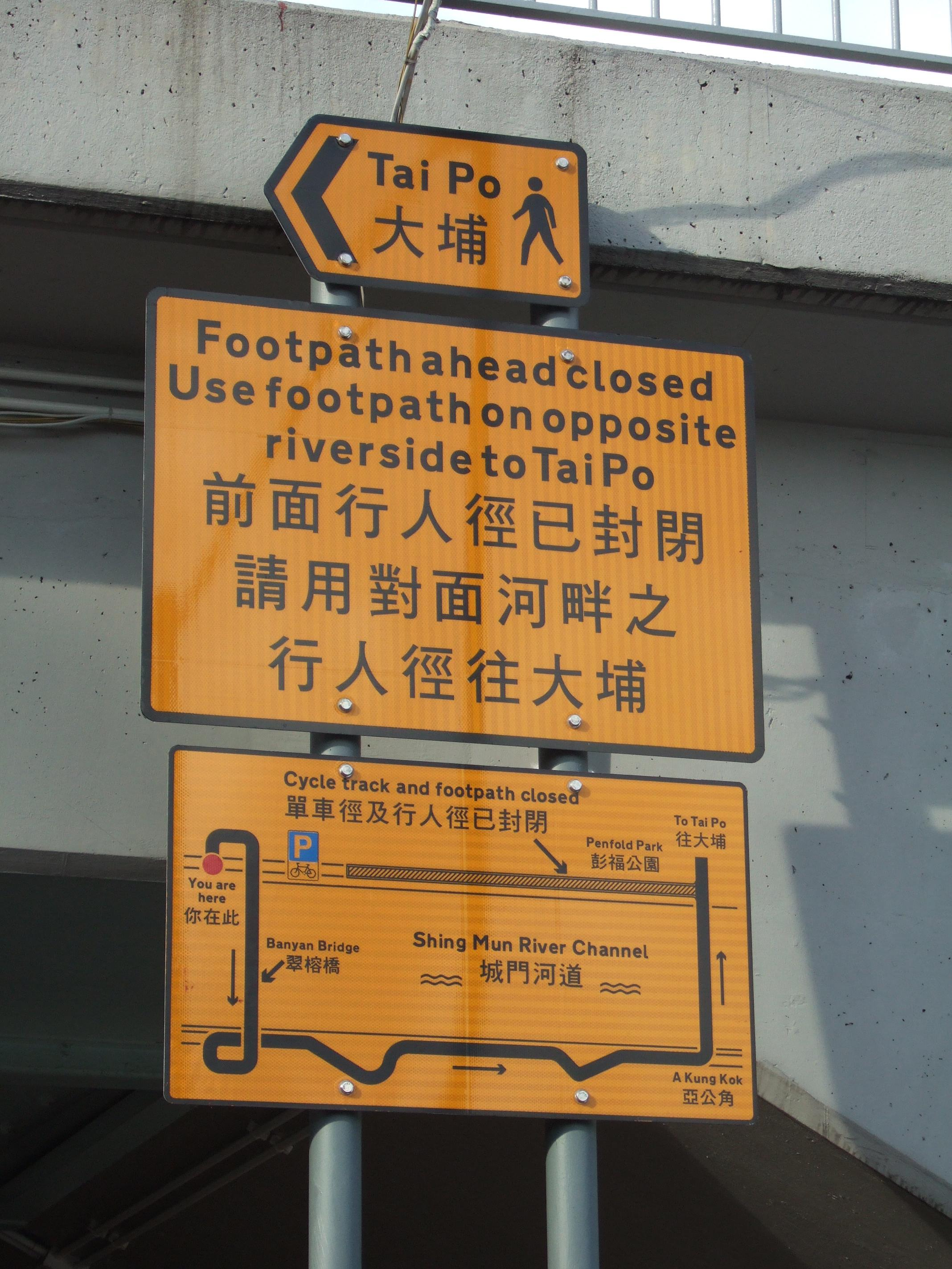 Block of Shing Mun River Channel cycle track and footpath, 2008 Summer Olympics